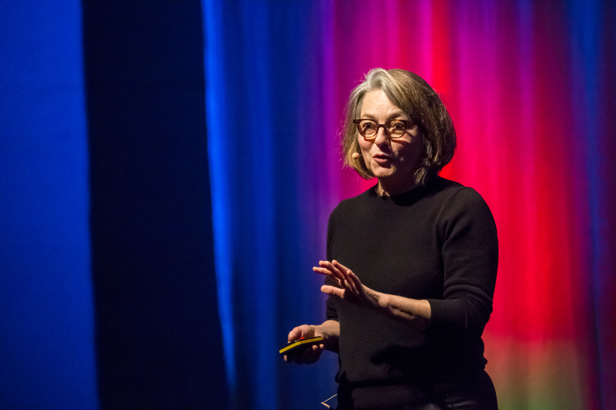 Photography of the Pr. Barbara Demeneix during the meeting "cure humanity, save Earth" at Aix-les-bains (France) the 3rd of February, 2018.